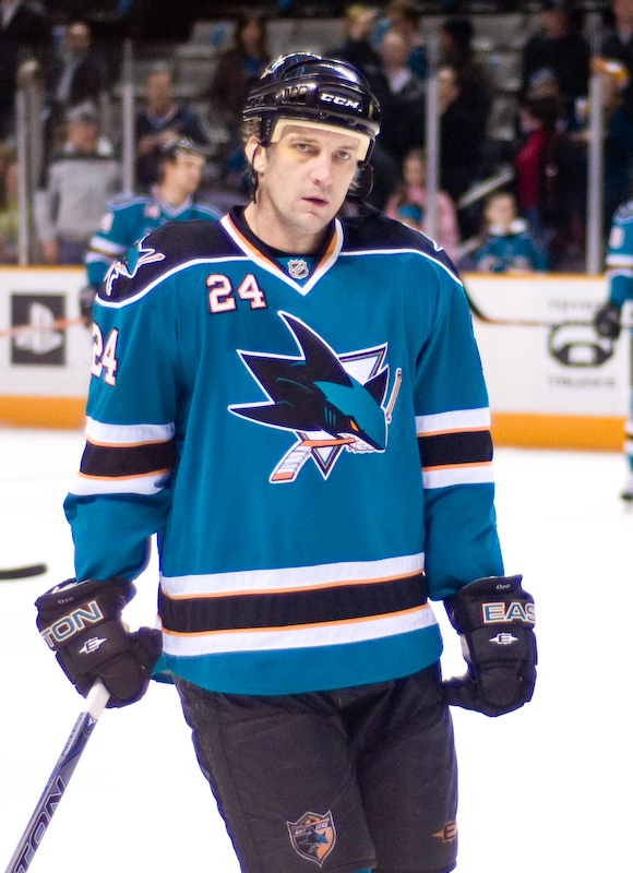 Sandis Ozoliņš